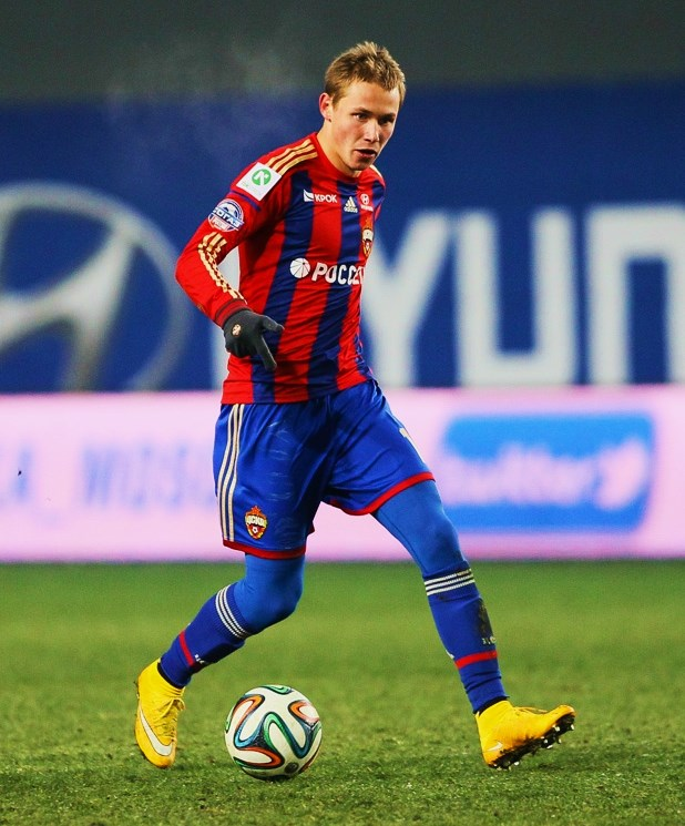 Dmitri Vladislavovich Yefremov